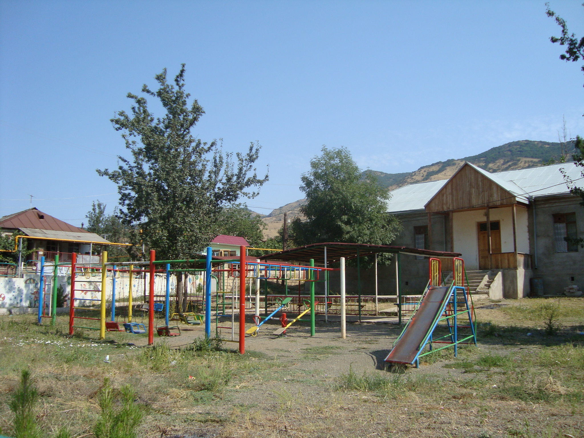 A playground. Hadrout, Republic of Mountainous Karabakh (Artsakh).